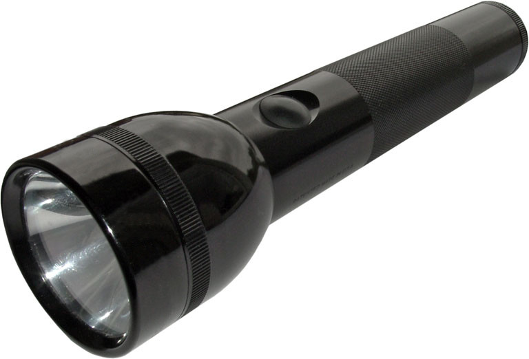 flashlight